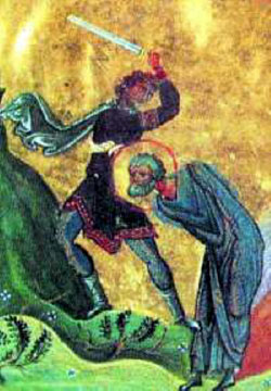 Saint Dasius of Durostorum, illustration from the Menologion of Basil II (under the date of 20 November)